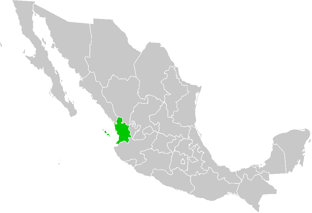 Map of the former Mexican territory of Tepic